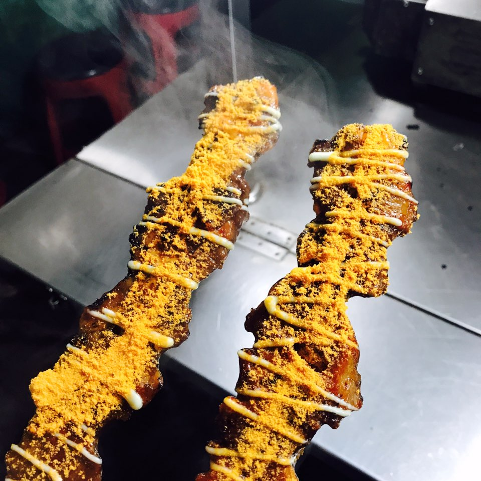 chiken skewers in foodtruks